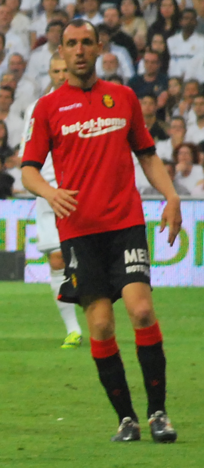 Iván Ramis Barrios playing for RCD Mallorca.